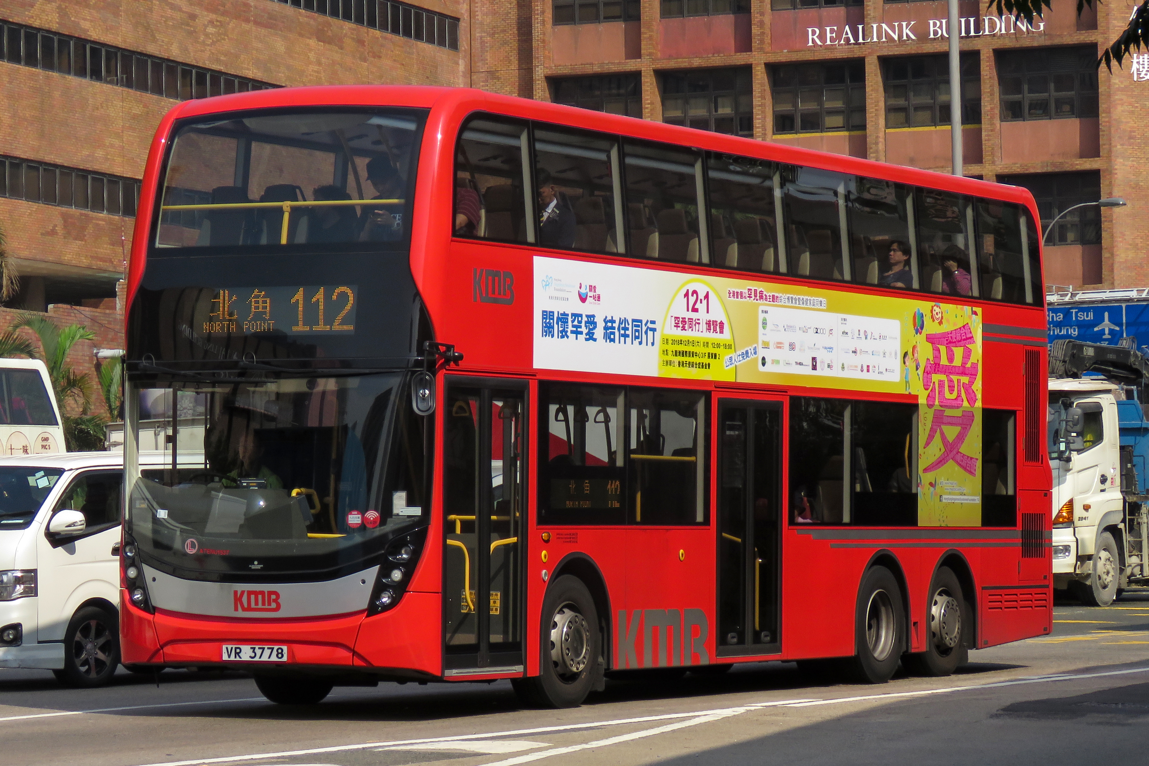 All 12m here?